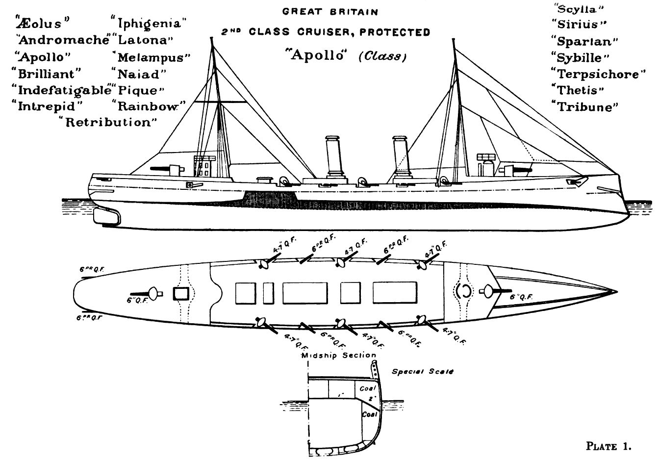 Right elevation, deck plan and hull cross-section diagrams, illustrating British Apollo class protected cruiser.